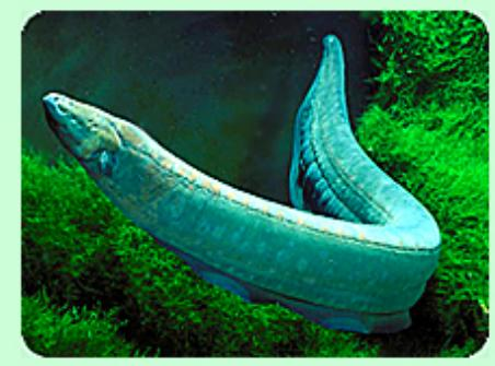 மின்சார ஆரான் மீன் 600 வோல்ட் மின்சாரத்தை வெளியிடும்.